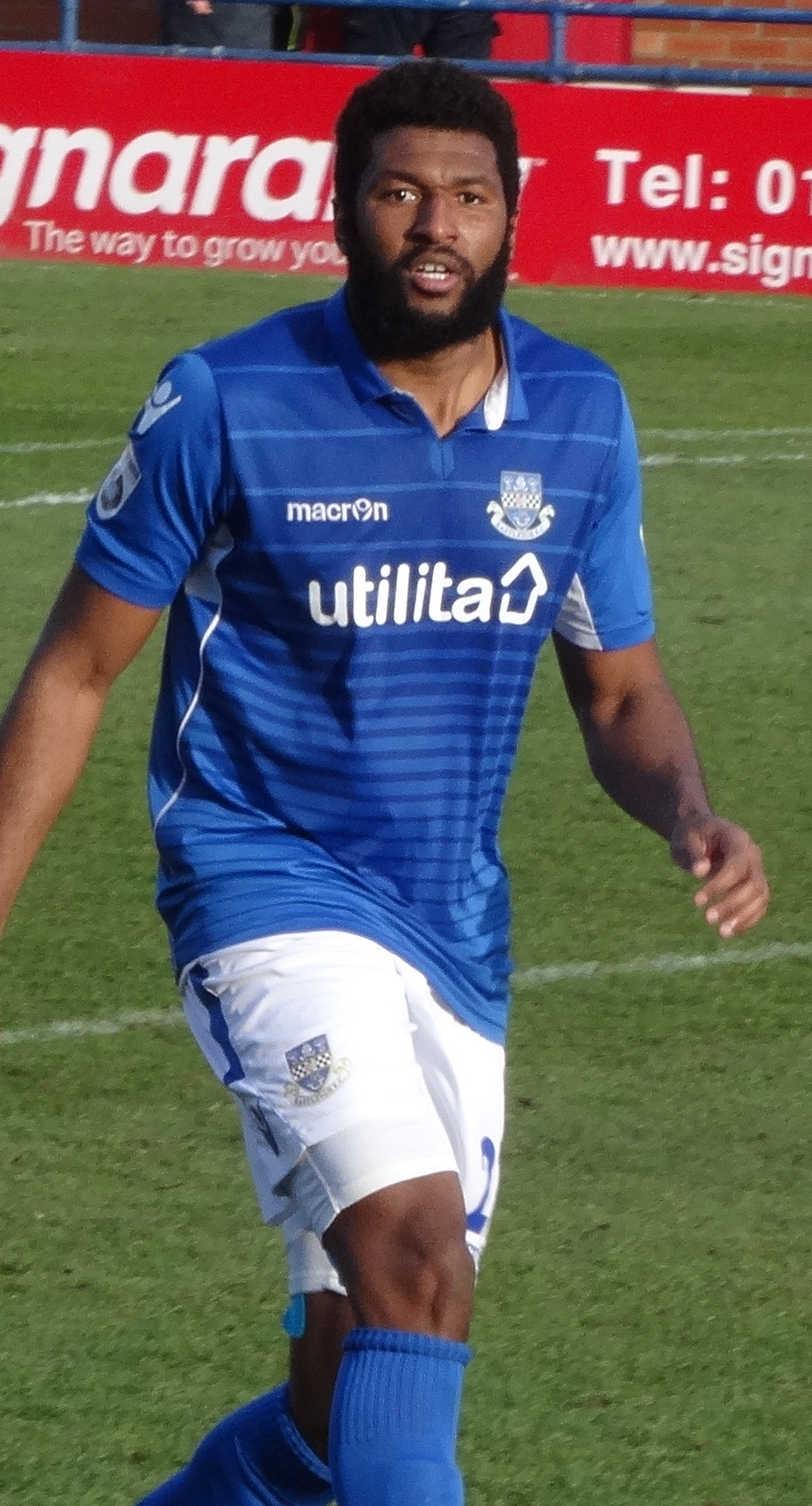 Réda Johnson playing for Eastleigh against York City at Bootham Crescent, York on 4 March 2017